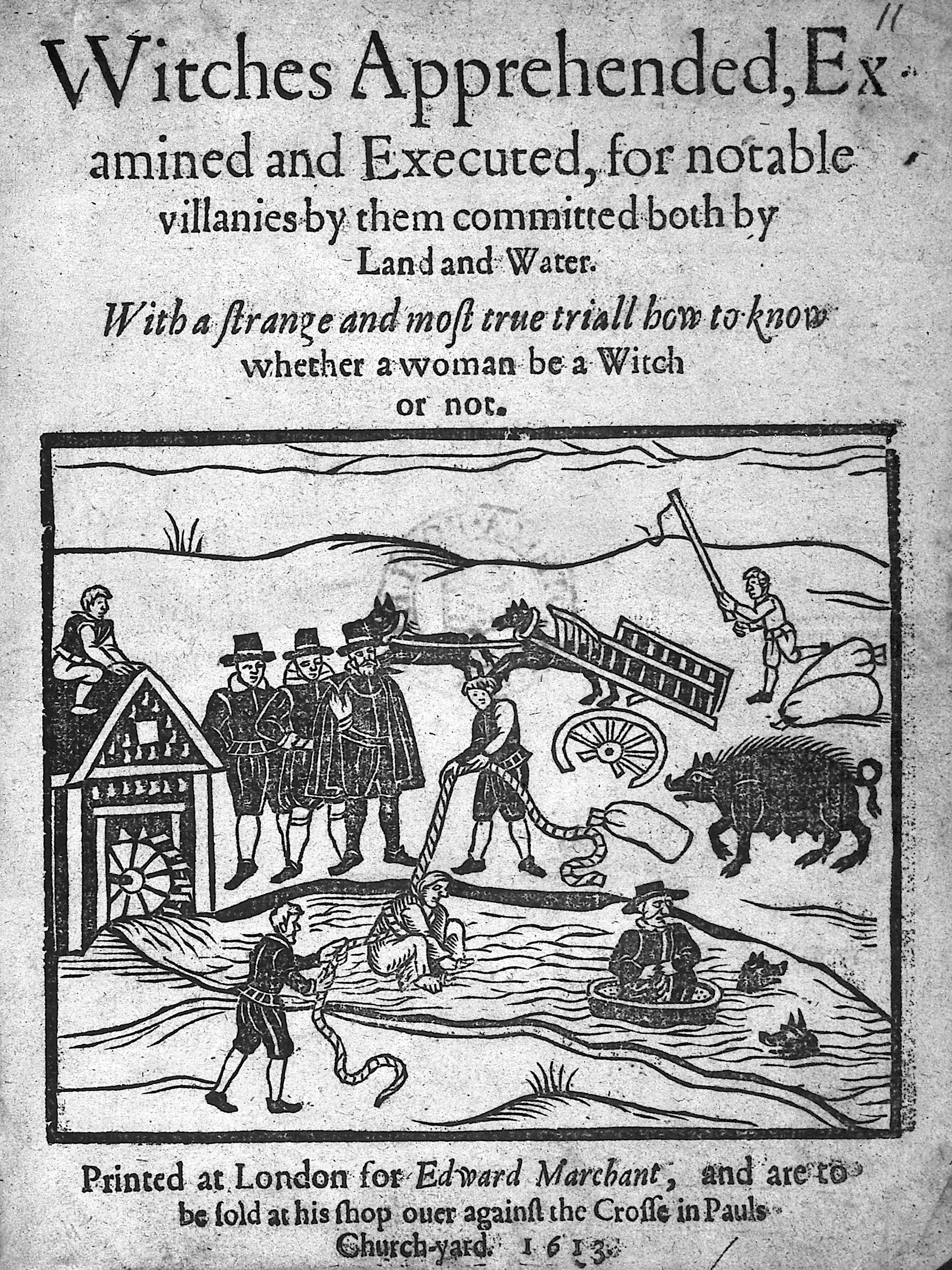 Title page of "Witches apprehended..." showing a witch being dunked in a river. Wellcome Images Keywords: Ducking; Witchcraft